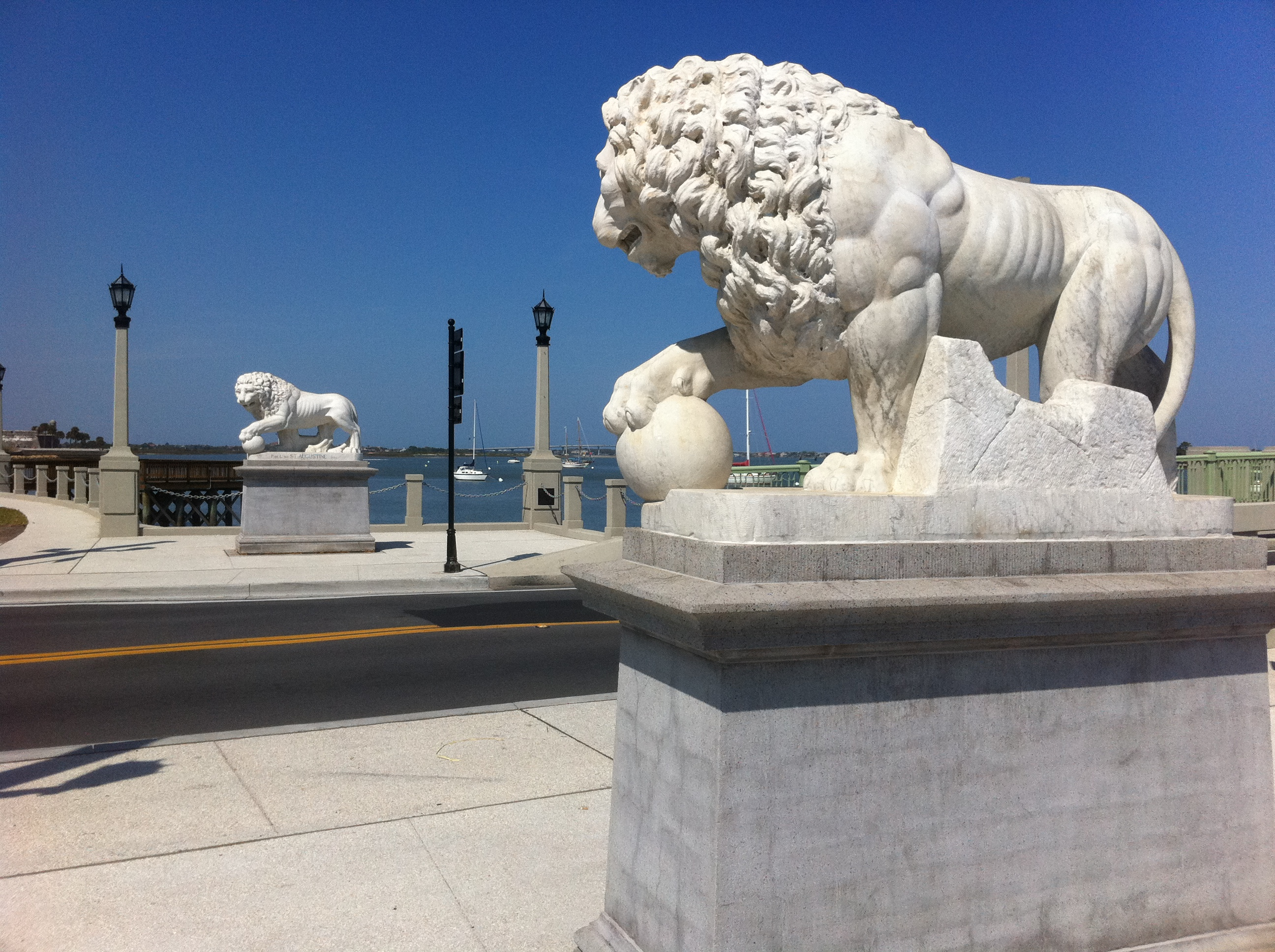 The newly re-installed lions at the western end of the Bridge of Lions. Re-placed on March 16, 2011